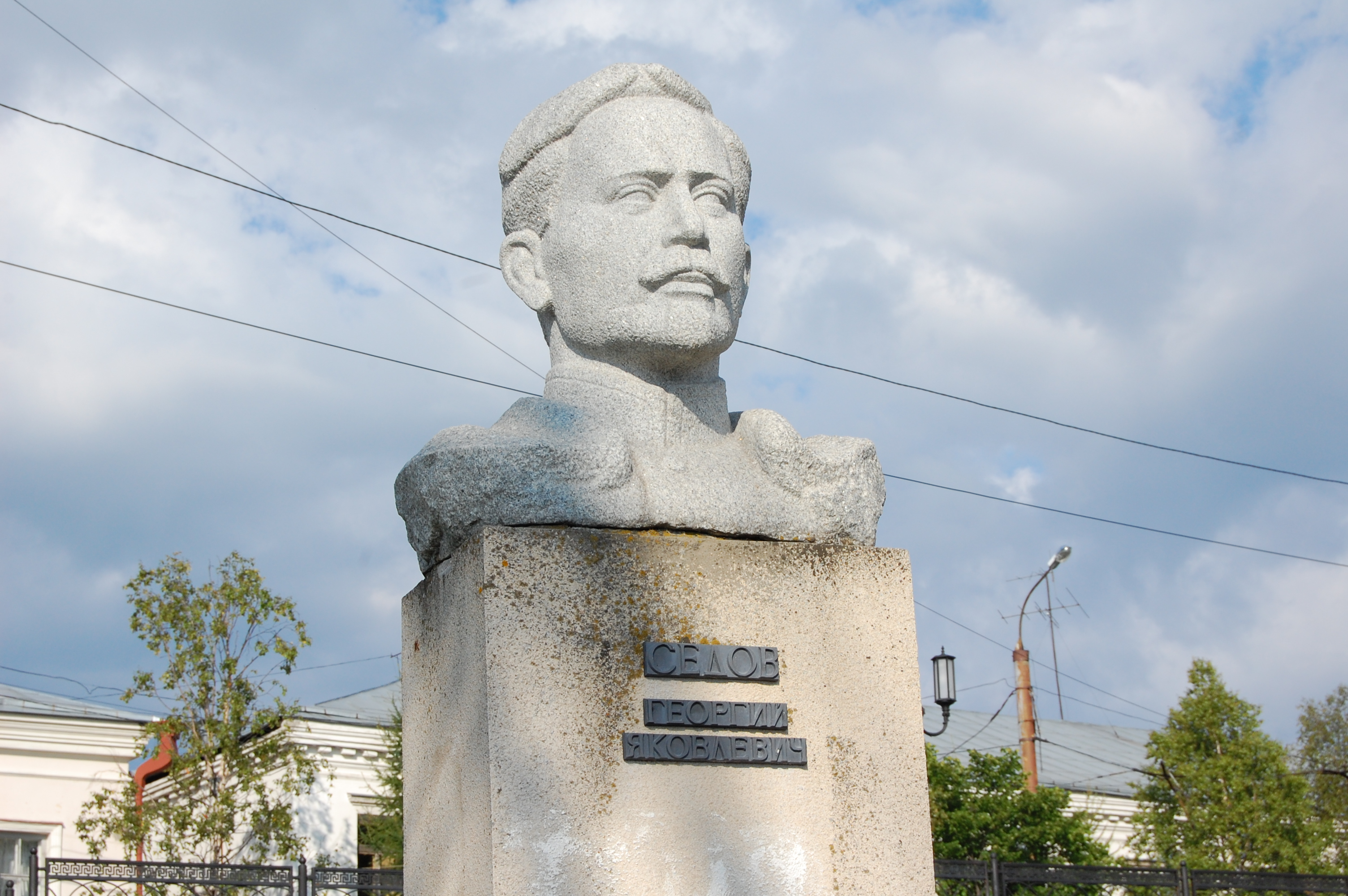 Georgiy Sedov Bust in Arkhangelsk